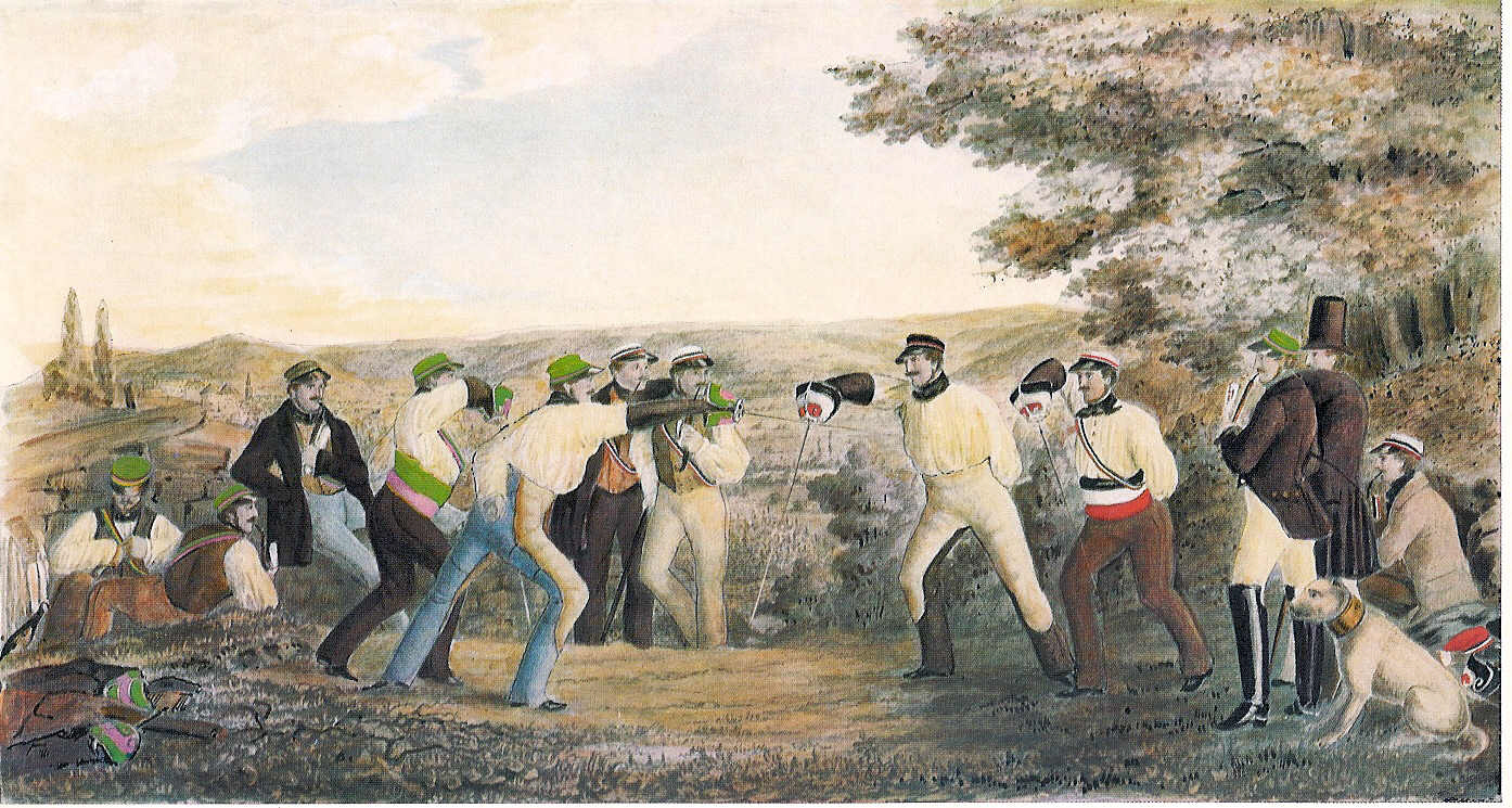 Student fencing in Tübingen in 1831. Image shows students fencing using "Korbschläger" as weapons, representing the student fraternities "Corps Franconia Tübingen" (left, colours: mossgreen-pink, wearing green caps) and "Corps Suevia Tübingen" (right, colours: black-white-red, wearing white caps), on the right with a top hat the "Paukarzt" (fencing doctor). It is an interesting side note that the seconds standing immediately by the two combatants and also the "Corps Suevia Tübingen" student combatant have taken the parry position known in fencing terminology as "Prime" or "First". The positioning of the arm thus protects the face from being hit. It is in fact only in later times as fencing for sport has become more common that the enguarde position of "Sixte" has started to be considered the standard Enguarde position. The prime parry position is considered by some to be the first as it is the natural position of the blade when it has first been drawn from its sheath. Following the various positions through in sequence as to their French names actually presents a quite formidable parrying system (at least in terms of the positions of the day and the cuts as they were then taught).